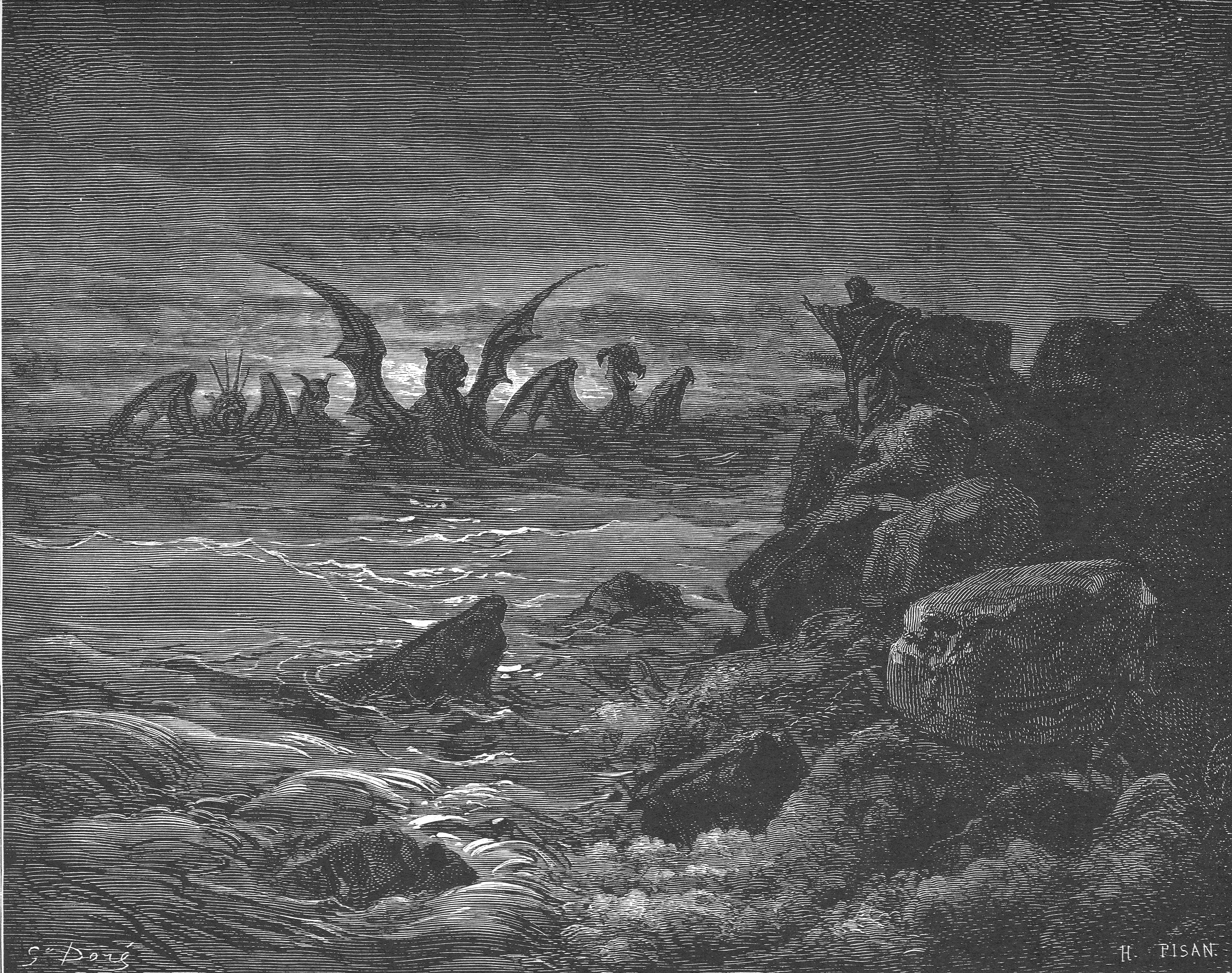 Daniel's Vision of the Four Beasts (Dan. 7:2-18)